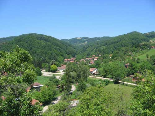 Kalenićki Prnjavor, region Šumadija, Serbia.